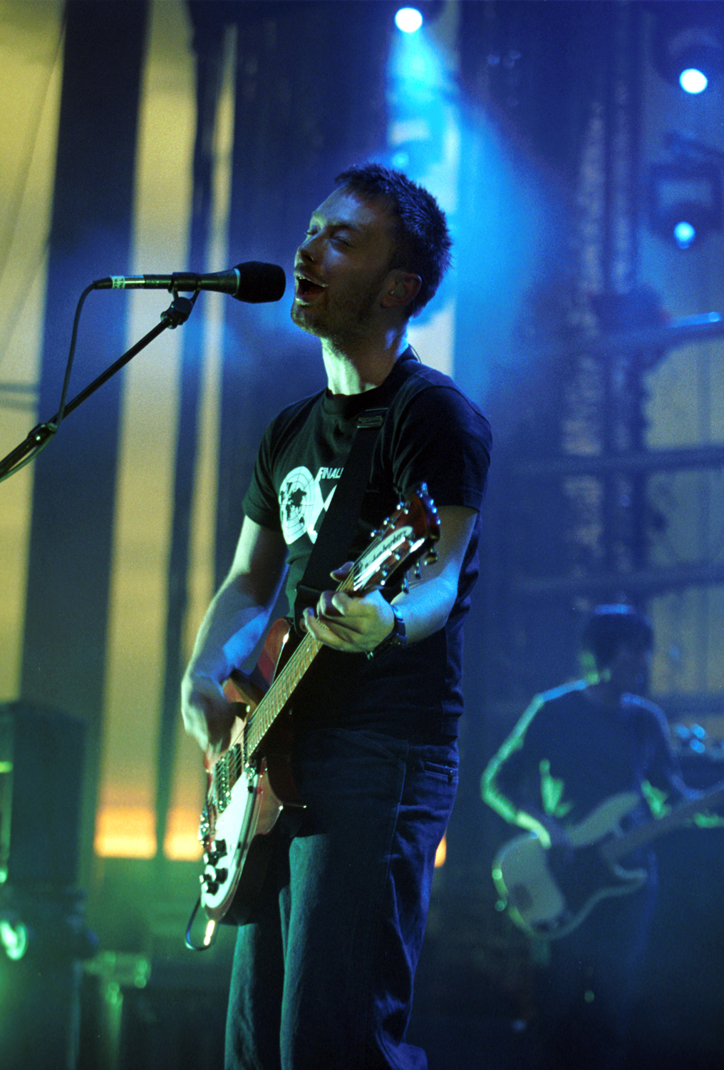 Thom Yorke in a concert with Radiohead. Photo taken on 2001.